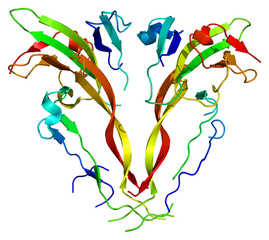 Structure of the INHBA protein. Based on PyMOL rendering of PDB 1nys.